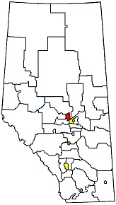 Location of Spruce Grove-Sturgeon-St. Albert a provincial electoral district in Alberta under 2004 provincial boundaries.